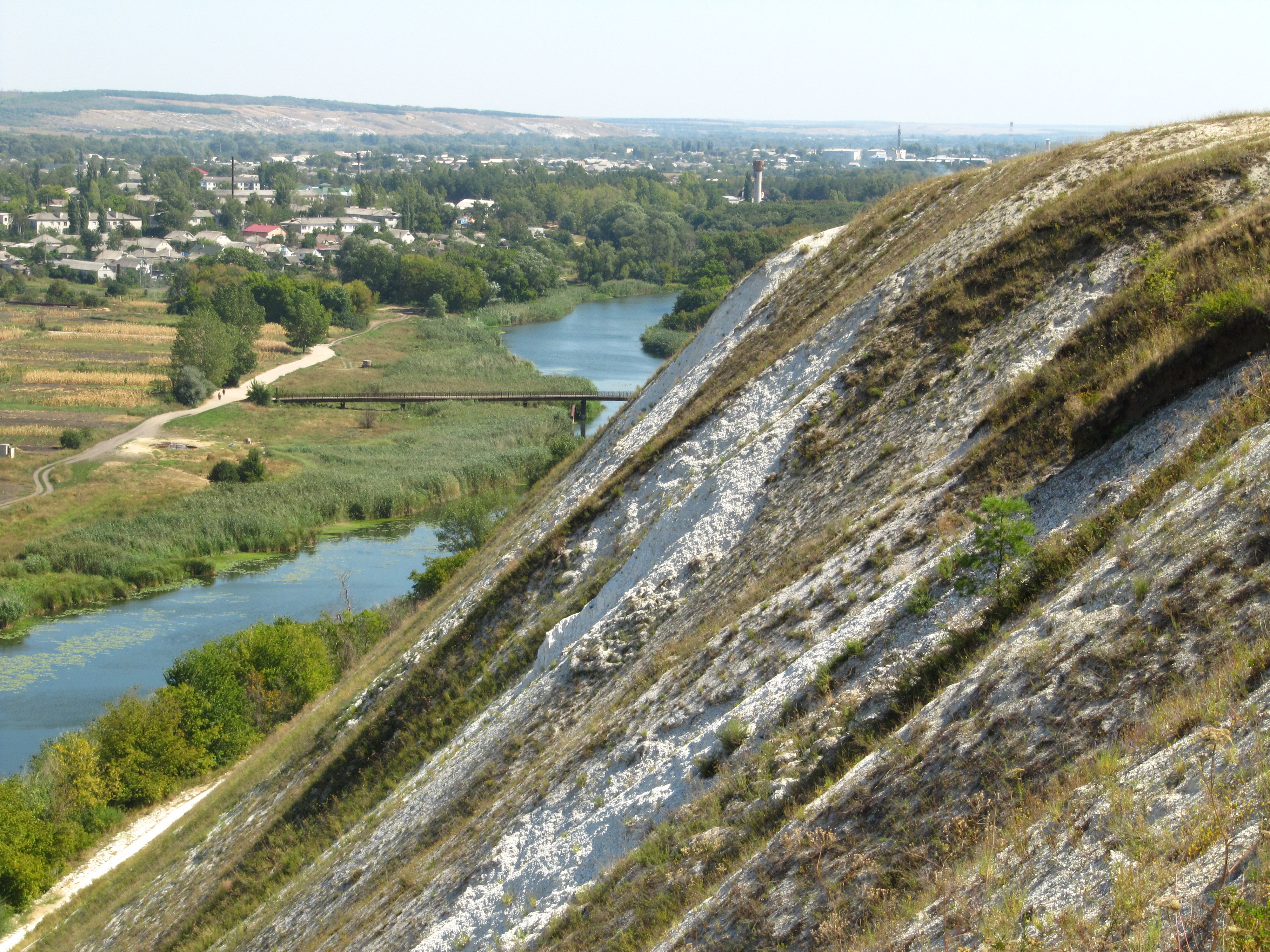 Novopskov (Ukraine) from the chalky ridge